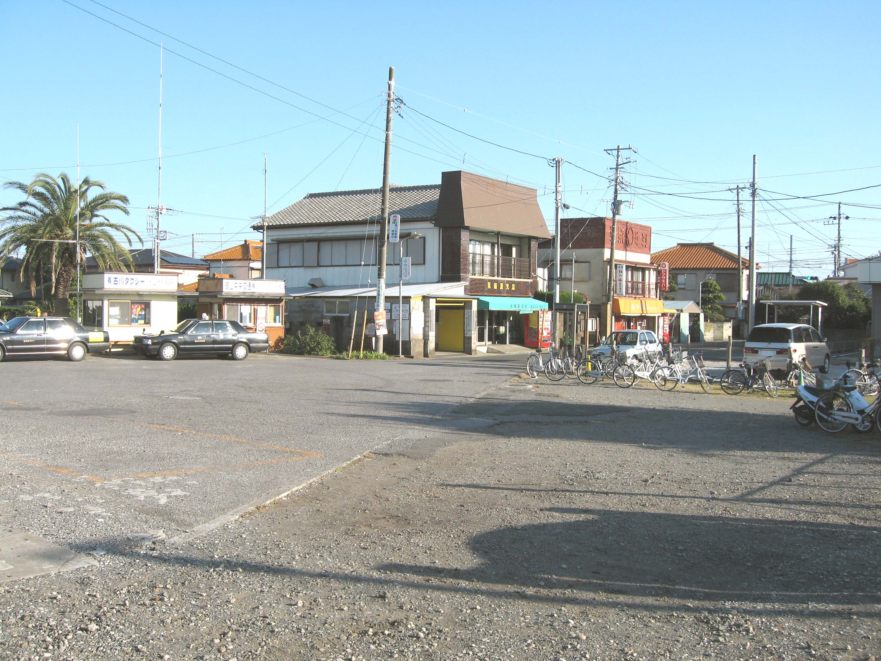 Minamihara Station, Uchibo Line, Chiba, Japan